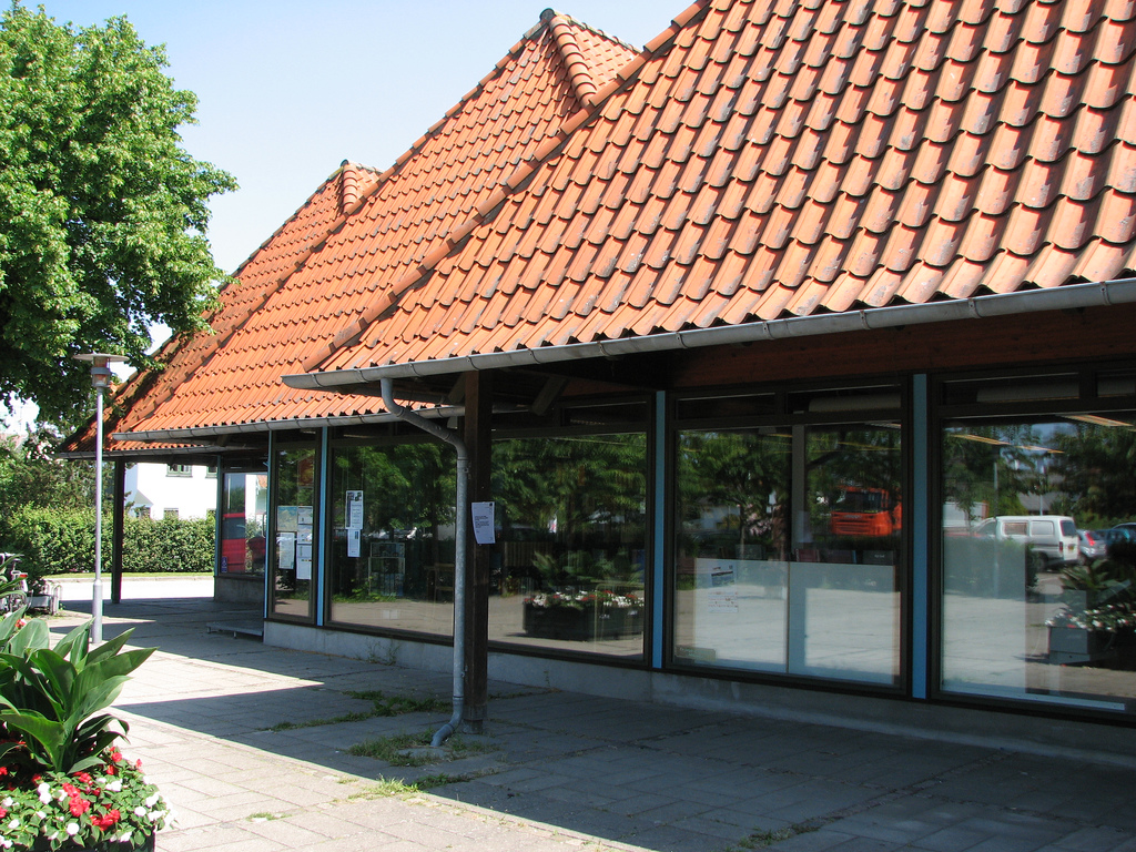 The libray in Hornbæk